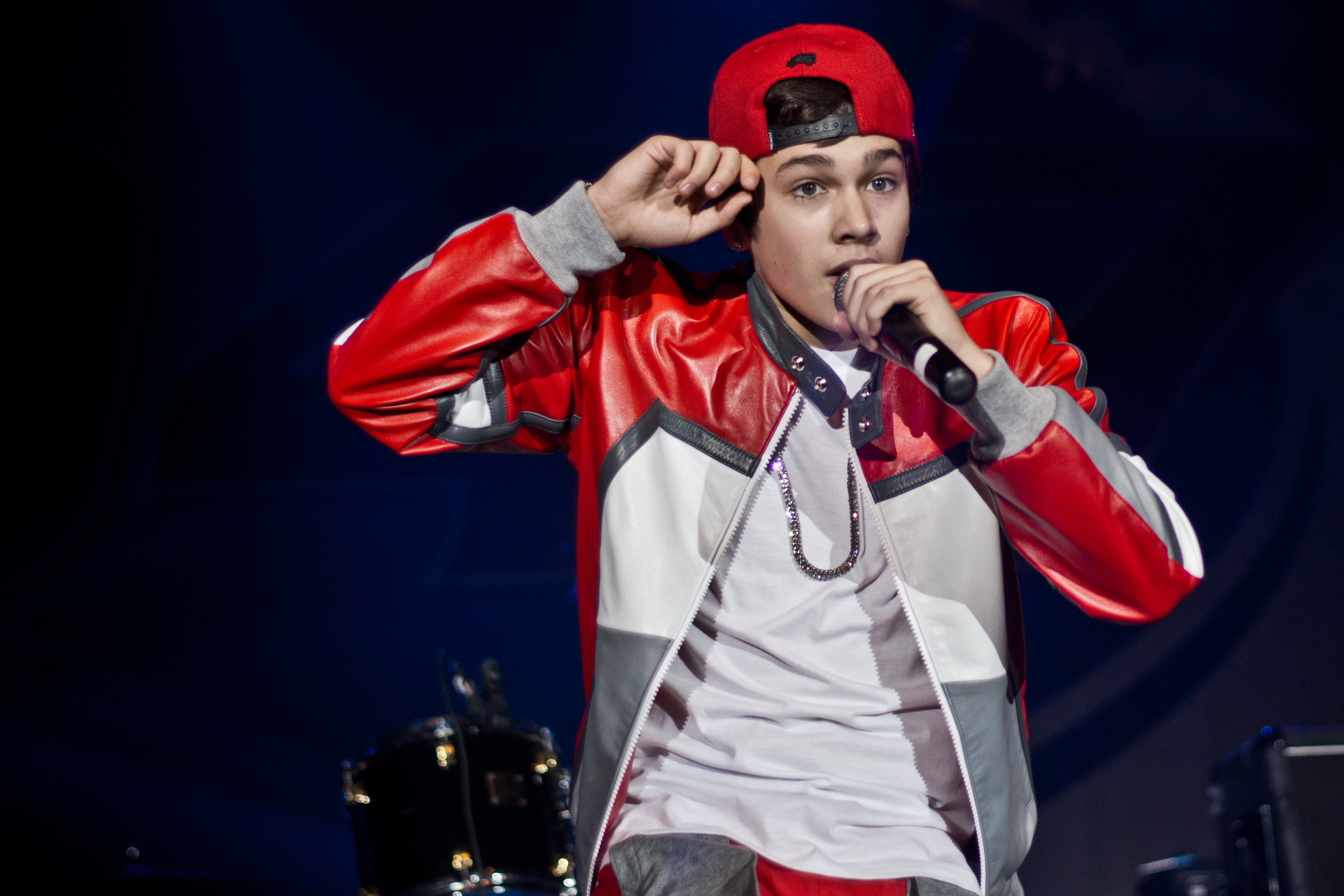 Austin Mahone performing for K104.7's Not So Silent Night on December 4th, 2012.